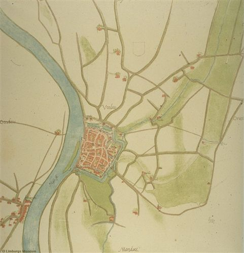 Map of Venlo (Netherlands) 1560